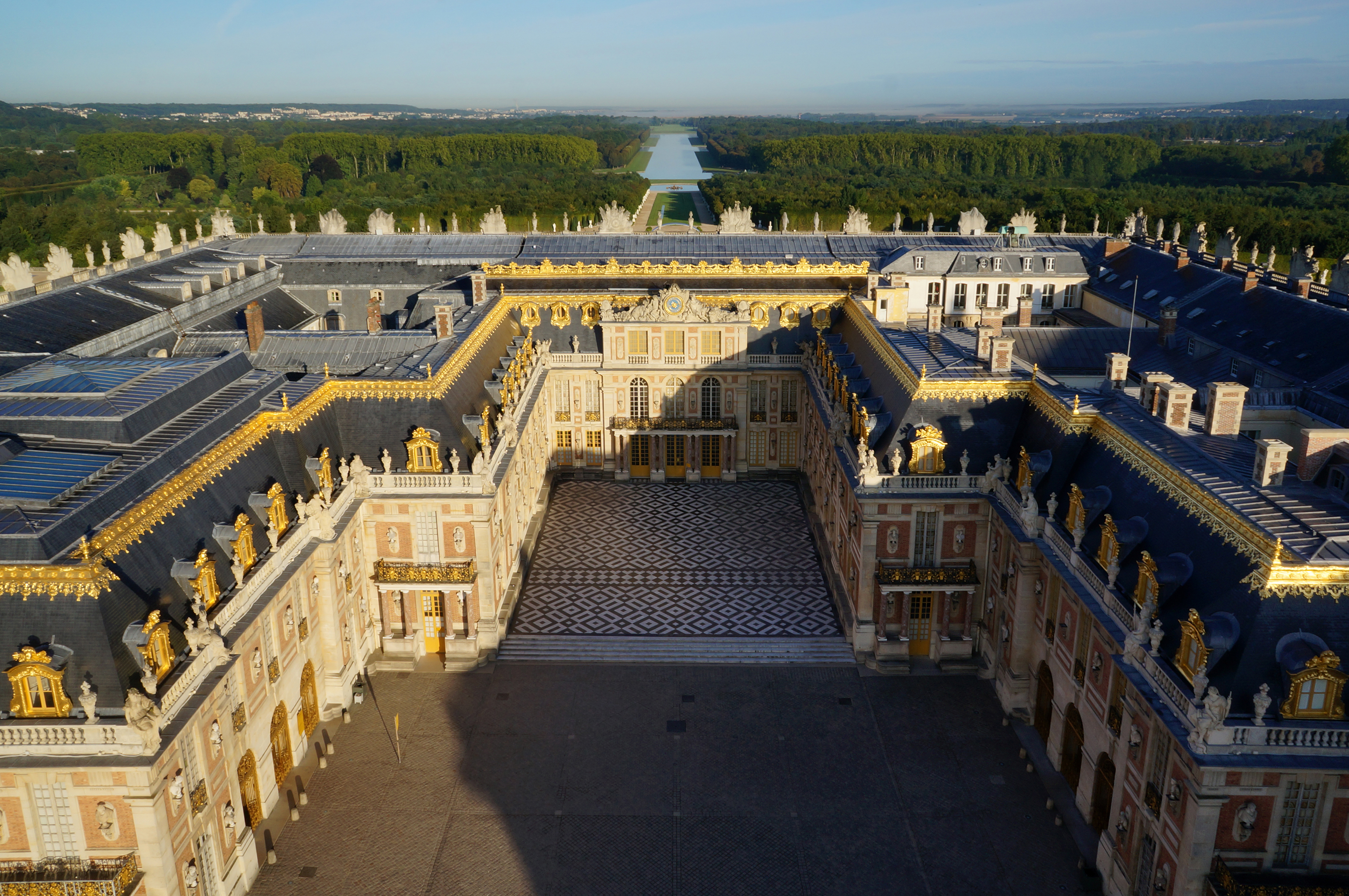 Aerial view of the Palace of Versailles, France